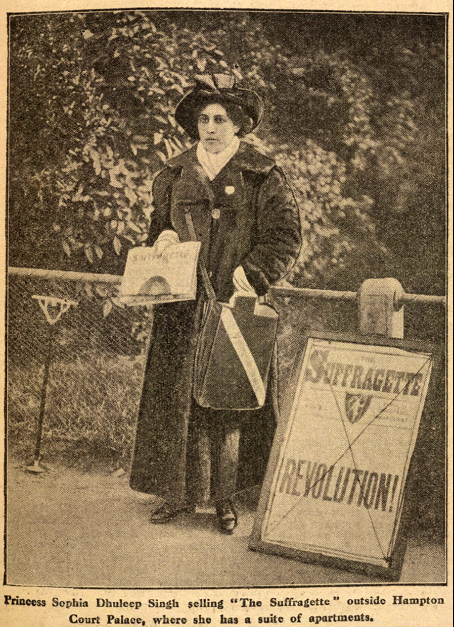 Princess Sophia Duleep Singh selling subscriptions for the Suffragette newspaper outside Hampton Court in London, April 1913. The British Library dates this image to 1910.